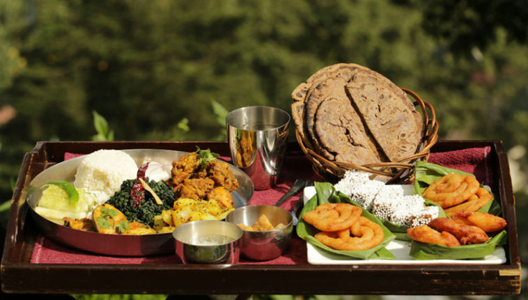 a plate full of food items cooked in kumaon region, india referred as "kumaoni thaali" by locals This photo has been taken in the country: India